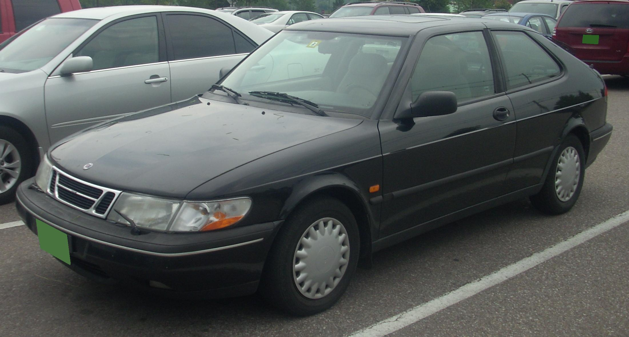 Saab 900 photographed in Williston, Vermont, USA.